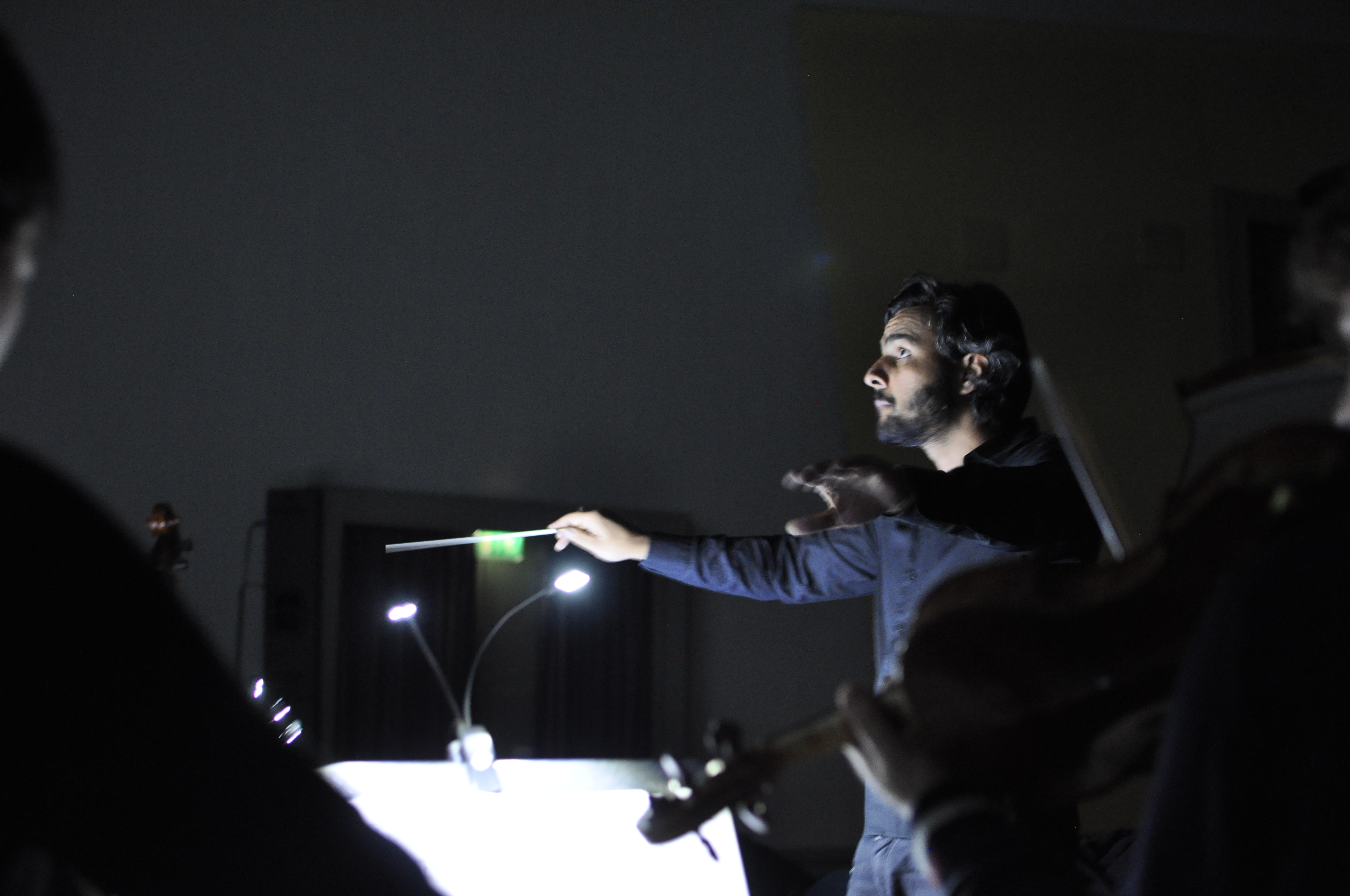 Marcelo Falcão conducting the Babylon Orchestra Berlin during the live screening of a silent movie.